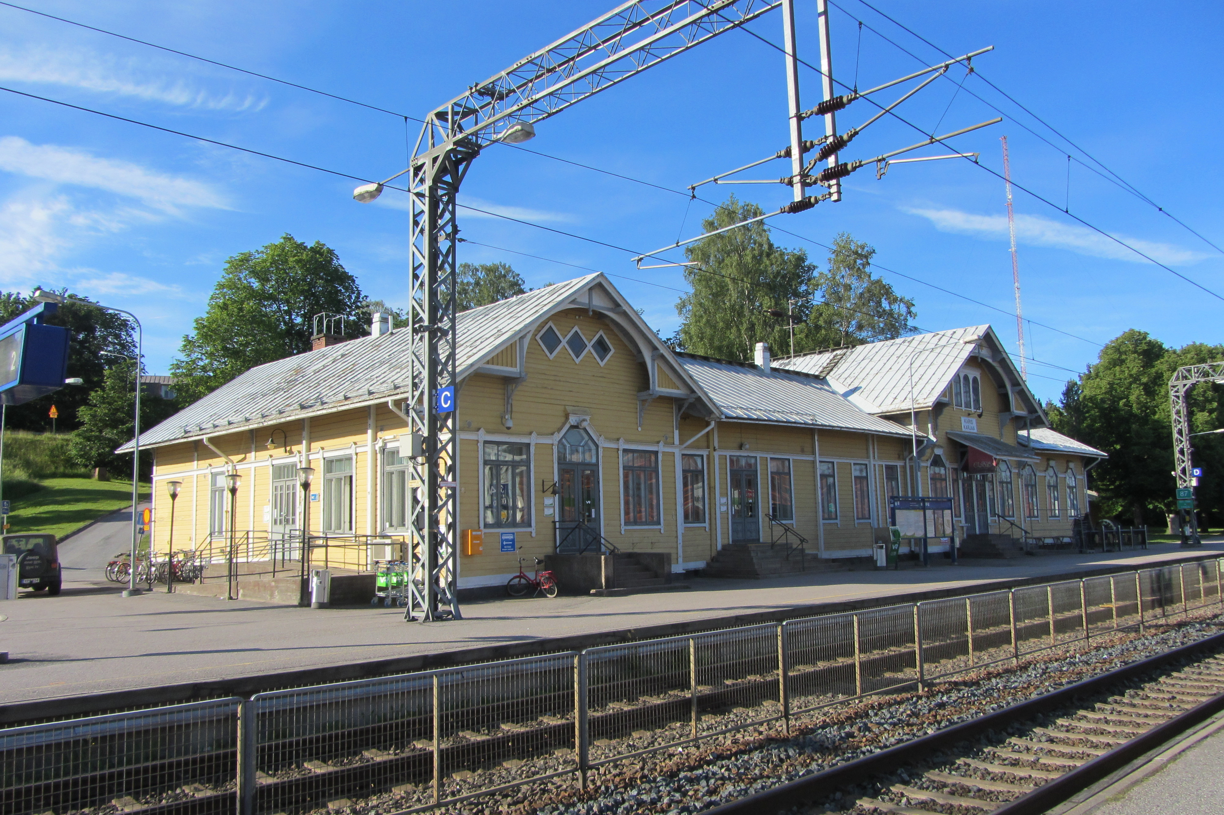 Karjaa Railway Station